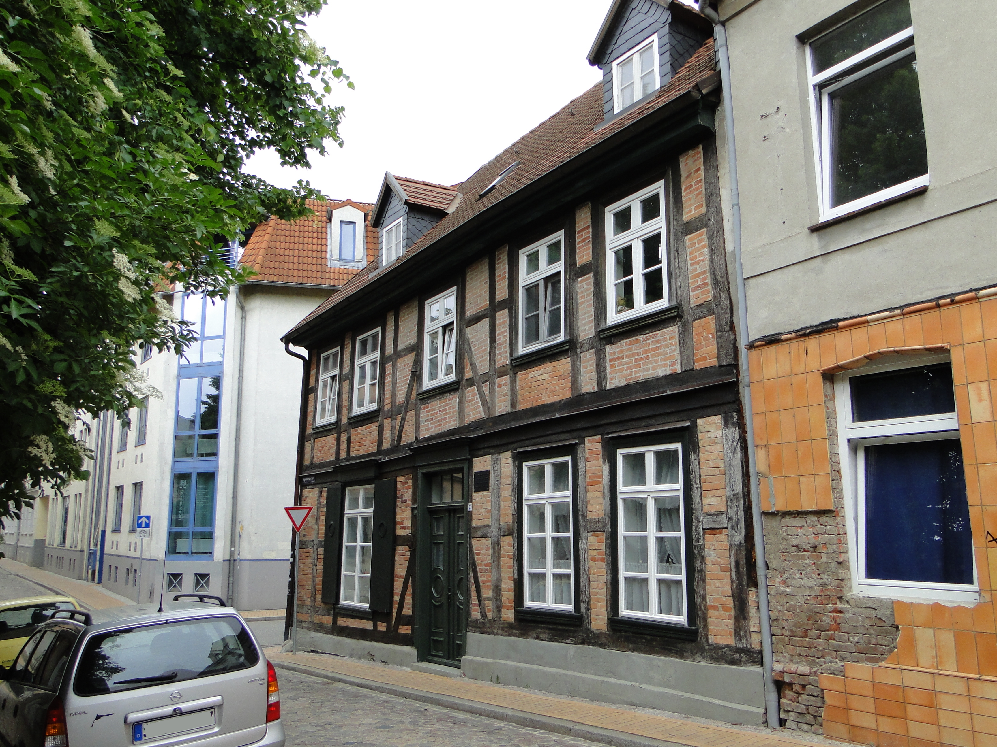 Cultural heritage monument in Schwerin, Mecklenburg-Vorpommern, Germany